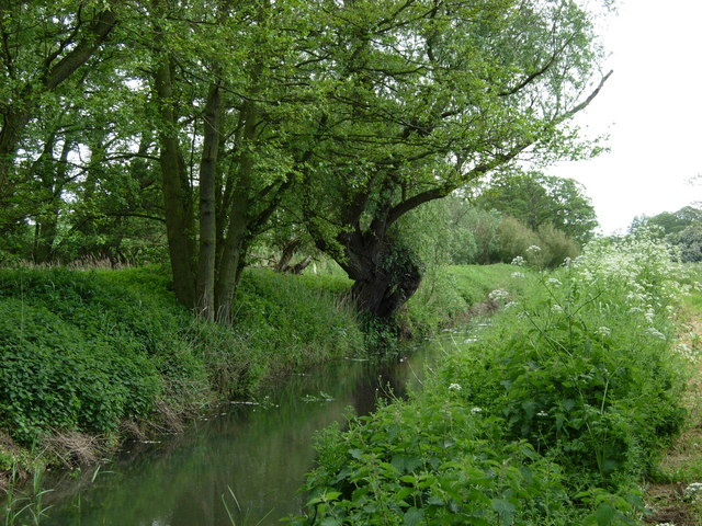 Minsmere River, Middleton. Looking downstream from below the B1125 bridge.